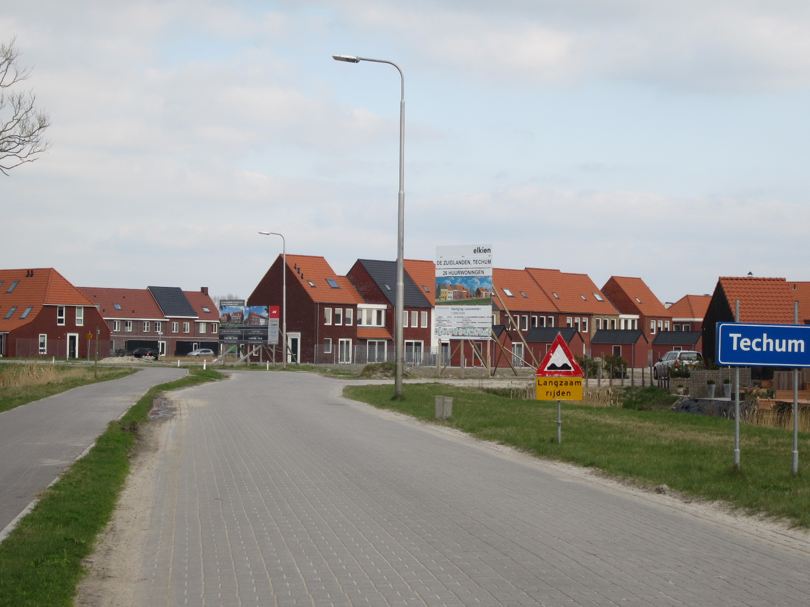 District De Zuidlanden in Leeuwarden, The Netherlands. Hamlet Techum under construction.